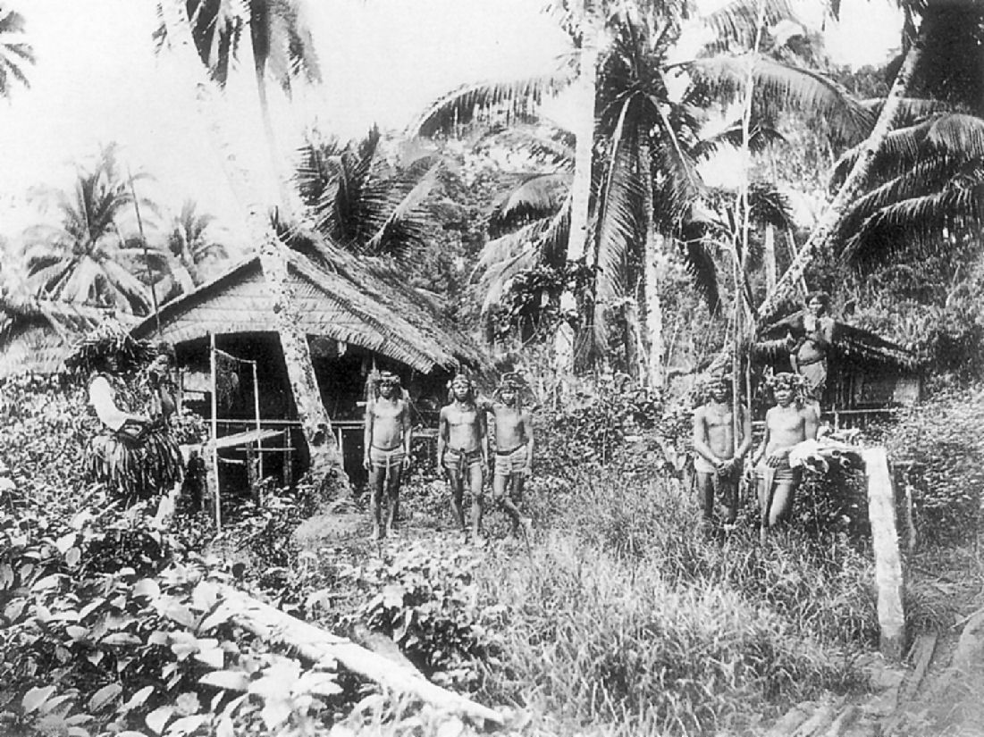 A Mentawai village.